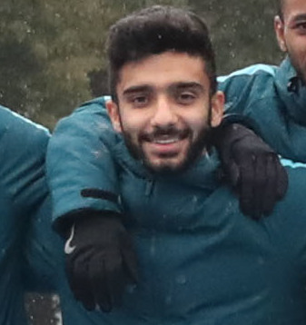 Players of Qatar's U23 team lined up for a picture at a training pitch for the 2018 AFC U-23 Championship in China.